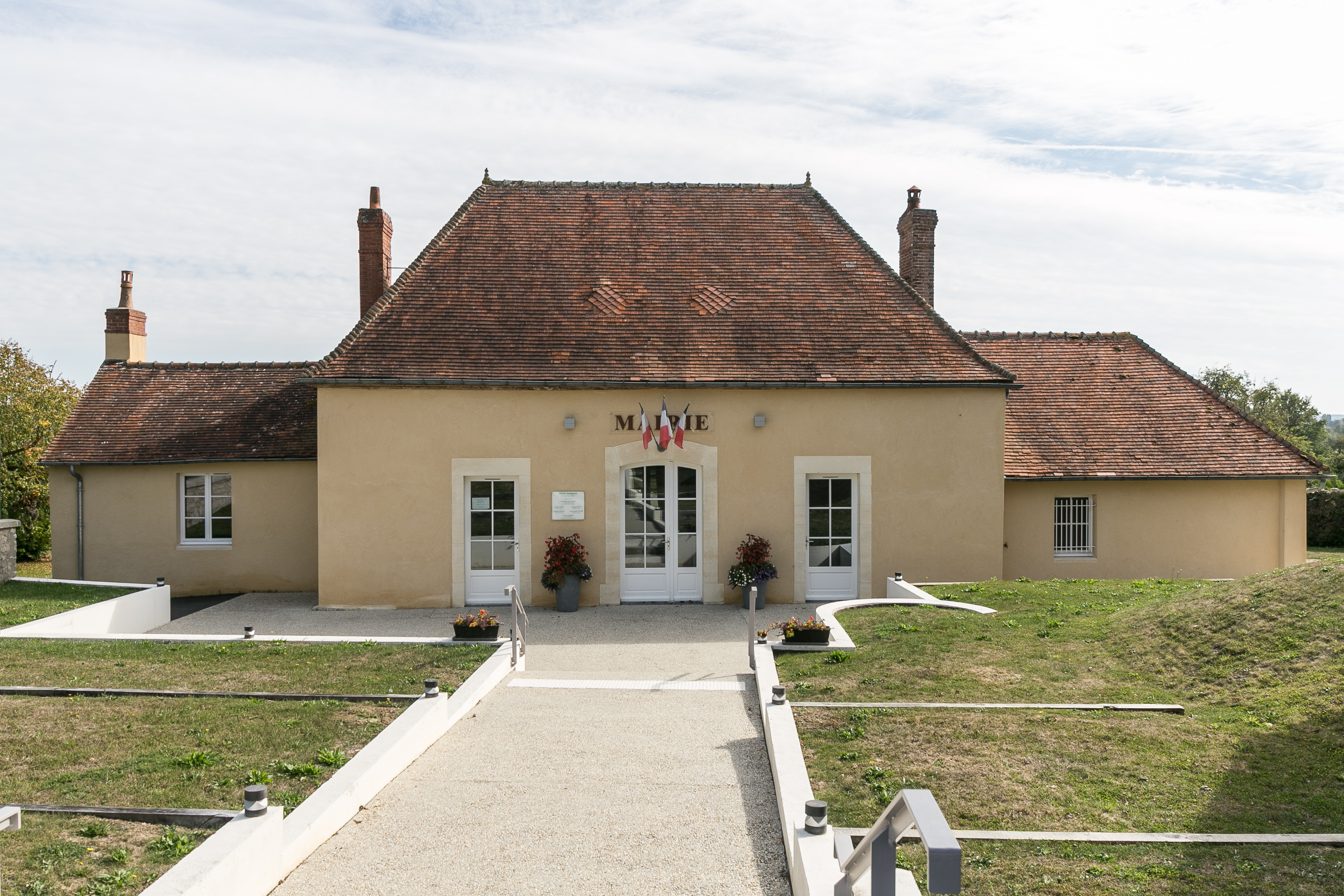 Town hall of Saint-Léger-sur-Sarthe.